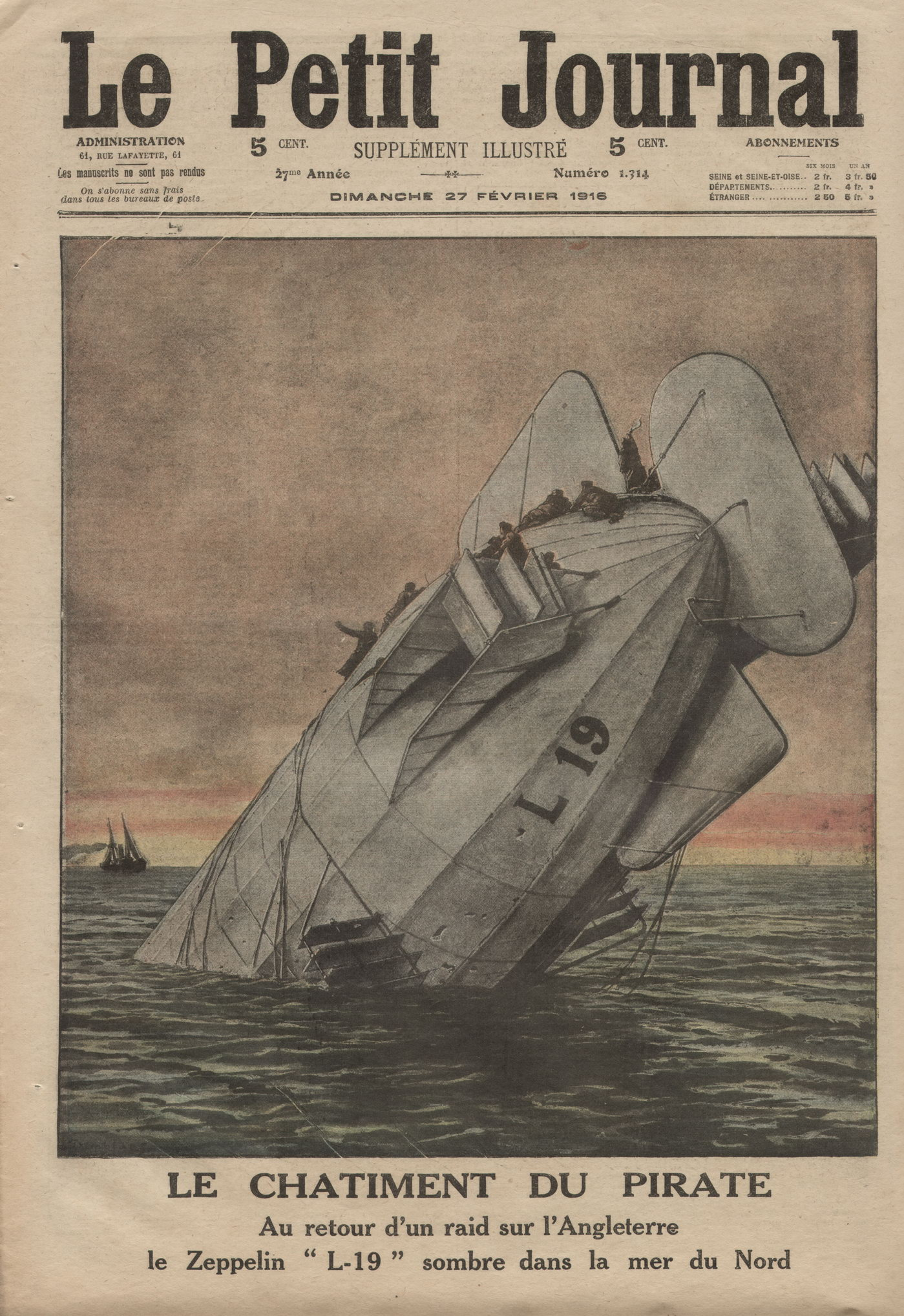 Cover page of "Le Petit Journal", 27 Feb 1916. "LE CHATIMENT DU PIRATE Au retout d'un daid sur l'Angleterre le Zeppelin 'L-19' sombre dans la mer du Nord" 'THE PUNISHMENT OF A PIRATE Returning from a raid on England, the Zeppelin 'L-19' sinks in the North Sea"